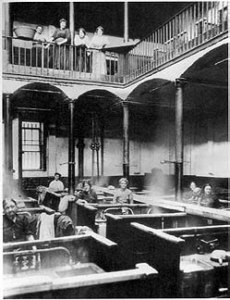 Interior of Frederick Street wash house. Built in 1842, this was the first public wash house in Britain.